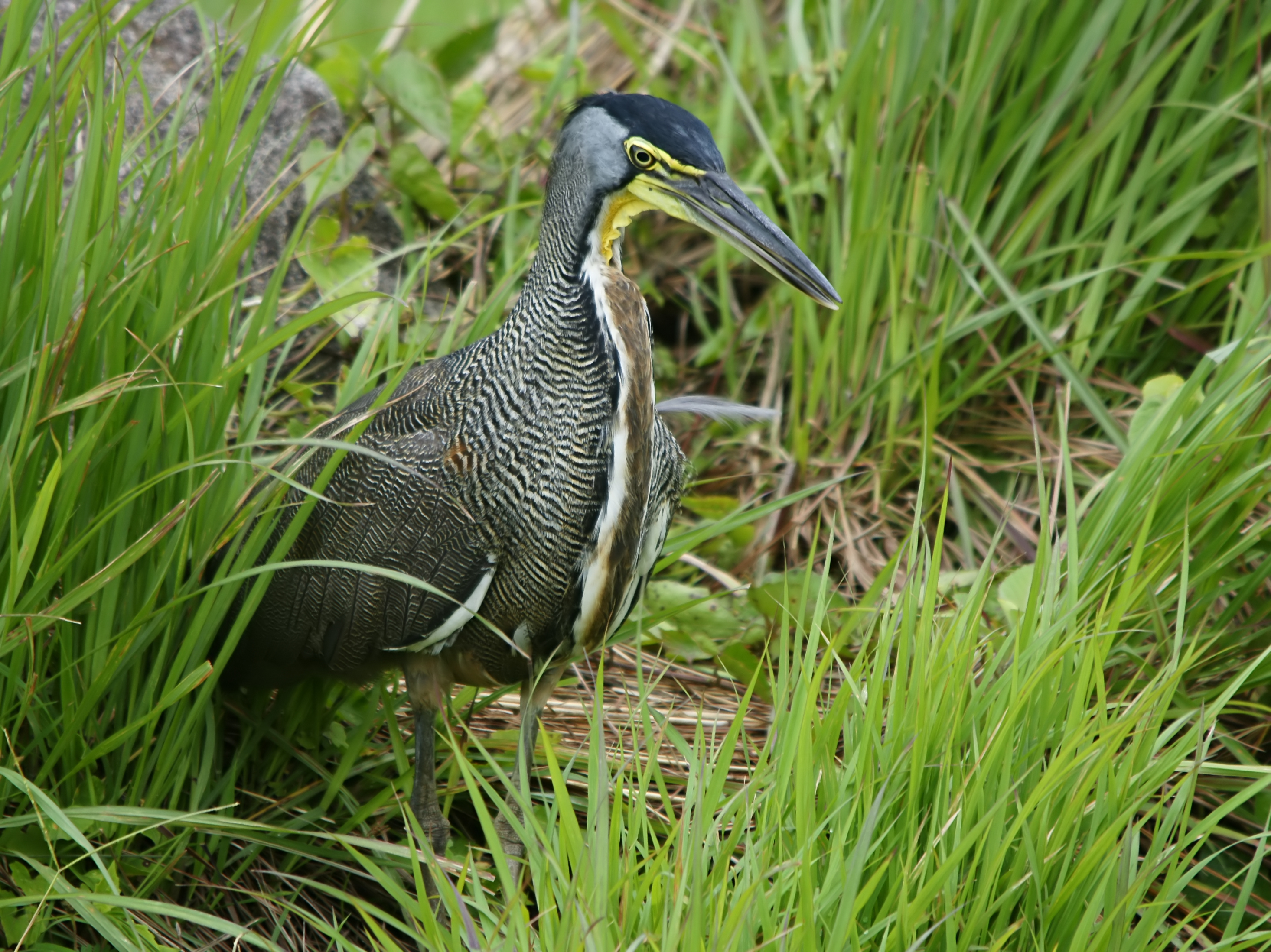 Bare-throated Tiger Heron at Rincon de la Vieja, Costa Rica.